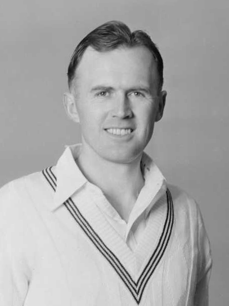 Geoffrey Rabone, captain of the New Zealand representative cricket team, 1953